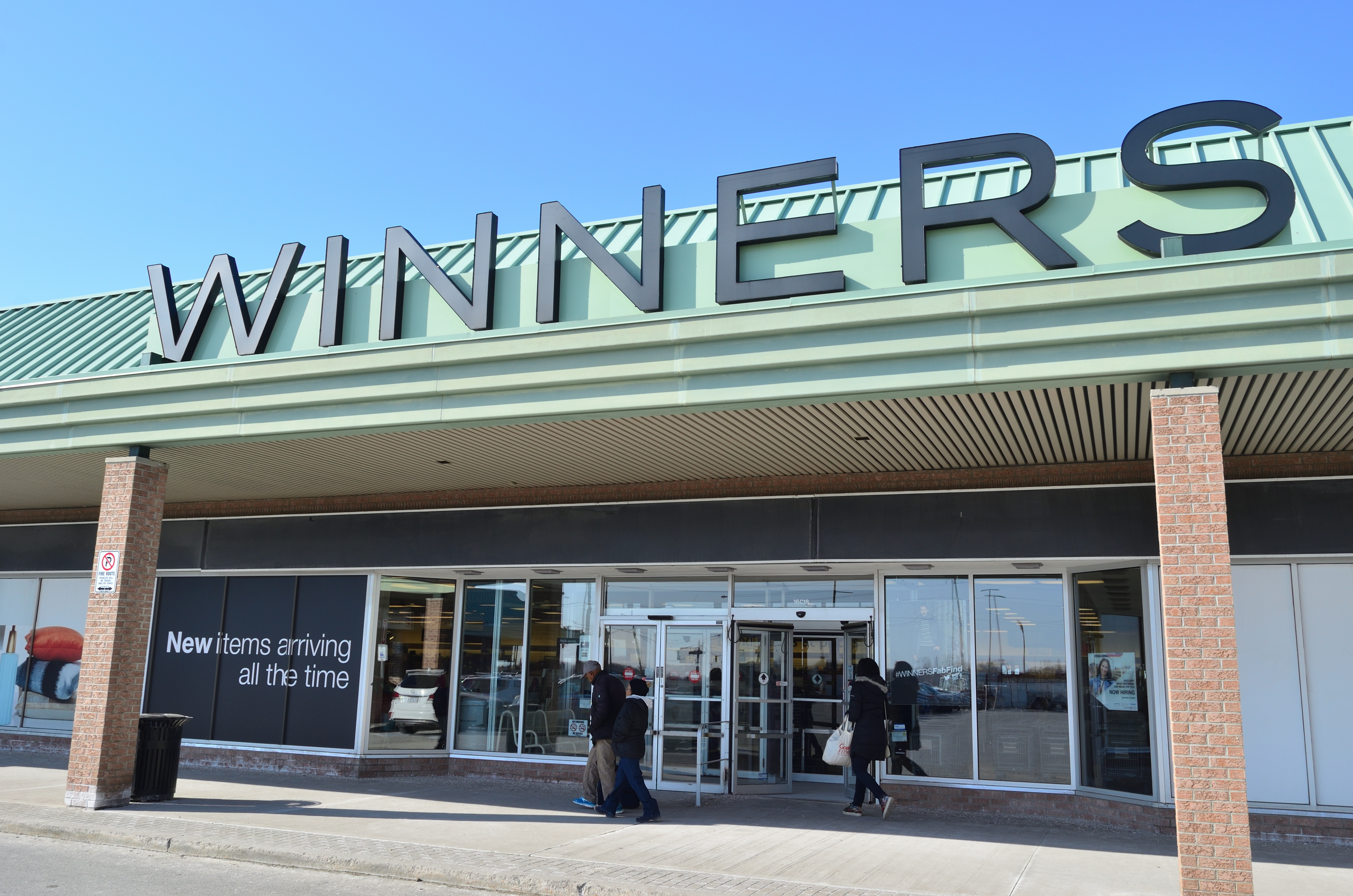 Winners - Address: 10520 Yonge St, Richmond Hill, ON L4C 3C7